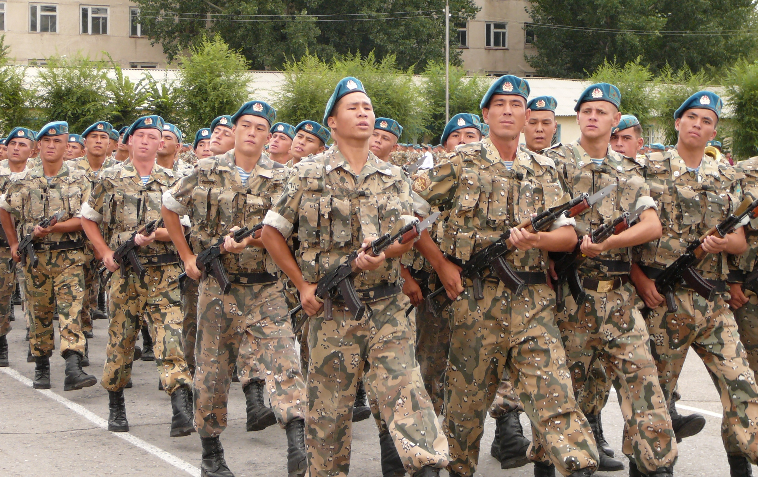 Kazakh paratroopers of the 35th Air Assault Brigade march in honor of Airborne Forces Day in Kapchagay on 2 August 2007